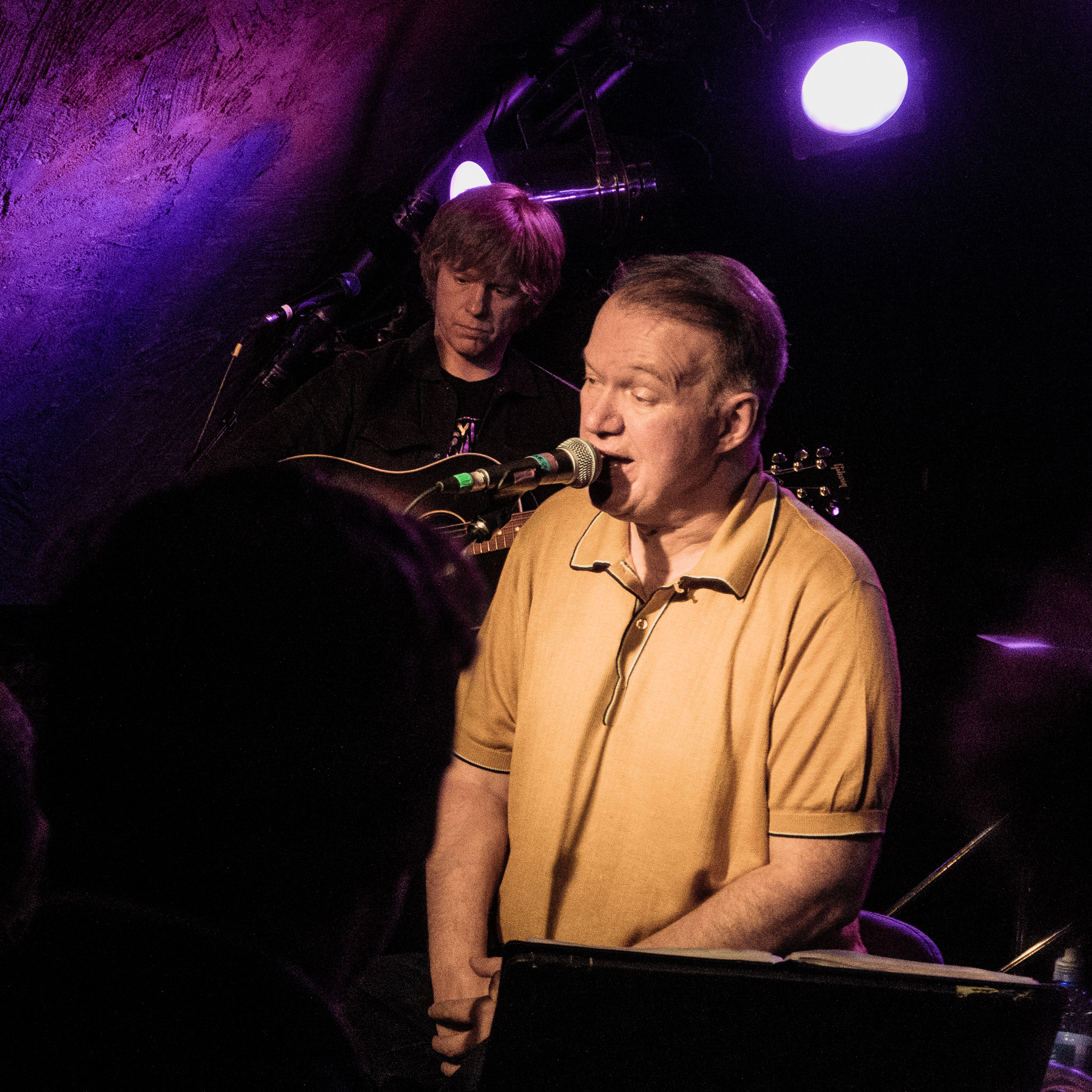 A concert photograph showing Edwyn Collins during their concert in the "Rockhouse Bar" venue in Salzburg (Austria) on 2019-09-27